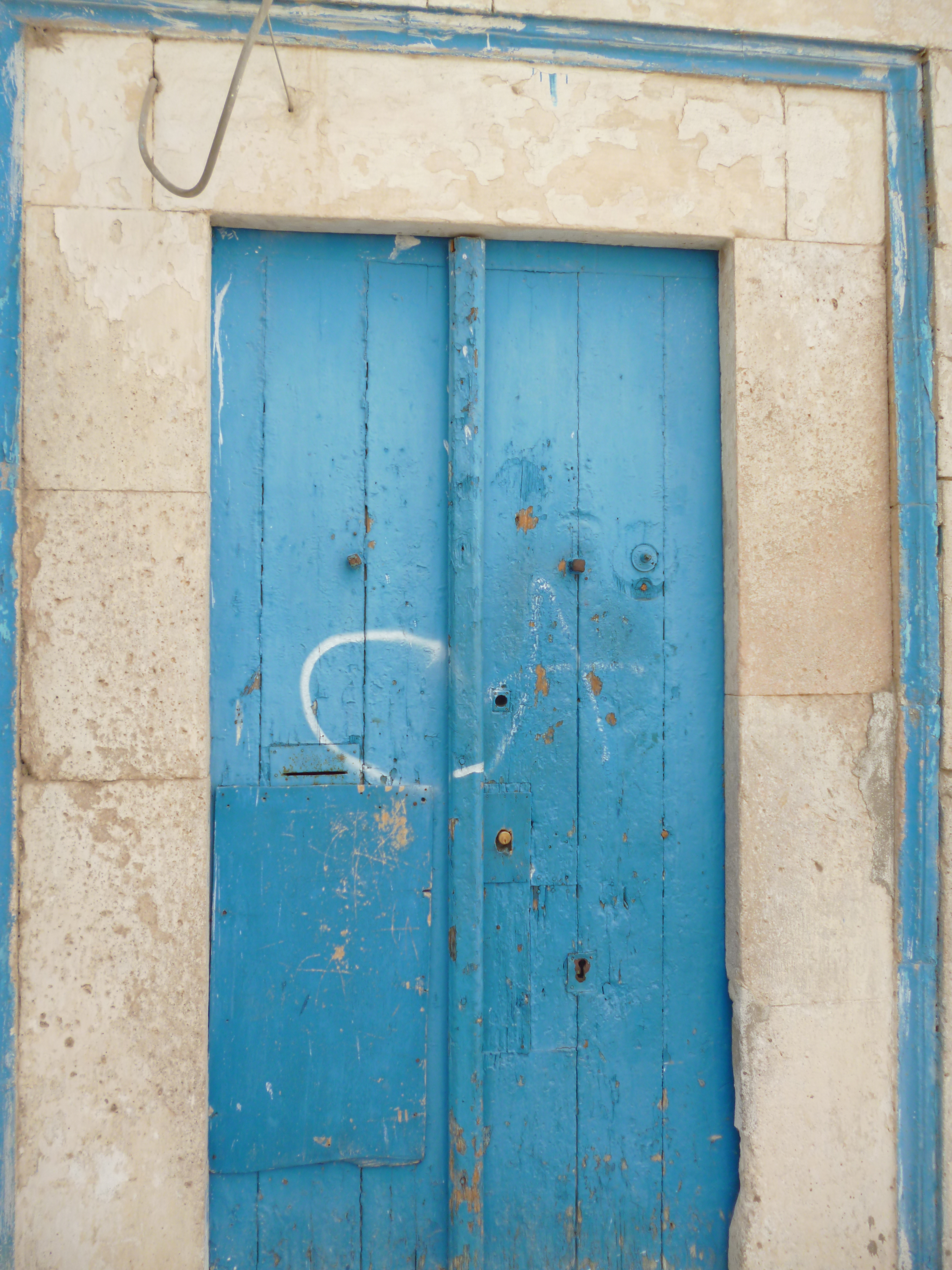 Une vue de la porte principale de la madérsa